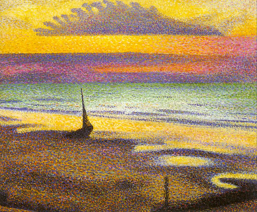 Beach at Heist (Plage à Heist), oil on panel, 37.5 x 45.7 cm, Musée d'Orsay, Paris